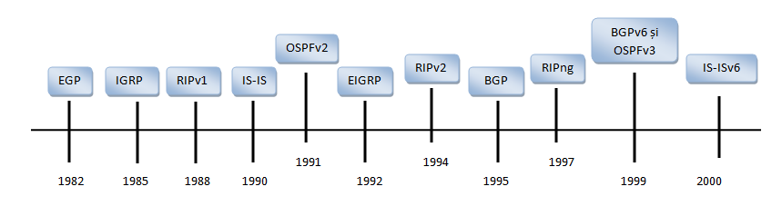 Graphical representation of routing protocol evolution